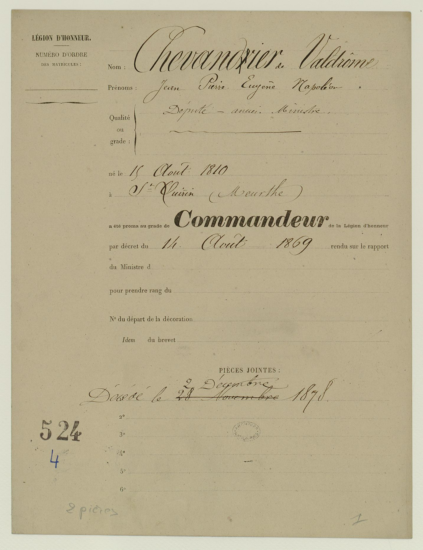 dossier de Légion d'honneur d'Eugène Chevandier